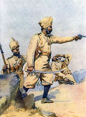 24th Punjabis (now 8th Battalion The Punjab Regiment, Pakistan Army). Watercolour by Major Alfred Crowdy Lovett, 1910. Published in MacMunn & Lovett, Armies of India, 1911.